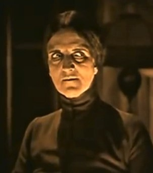 Martha Mattox in The Cat and the Canary - cropped screenshot